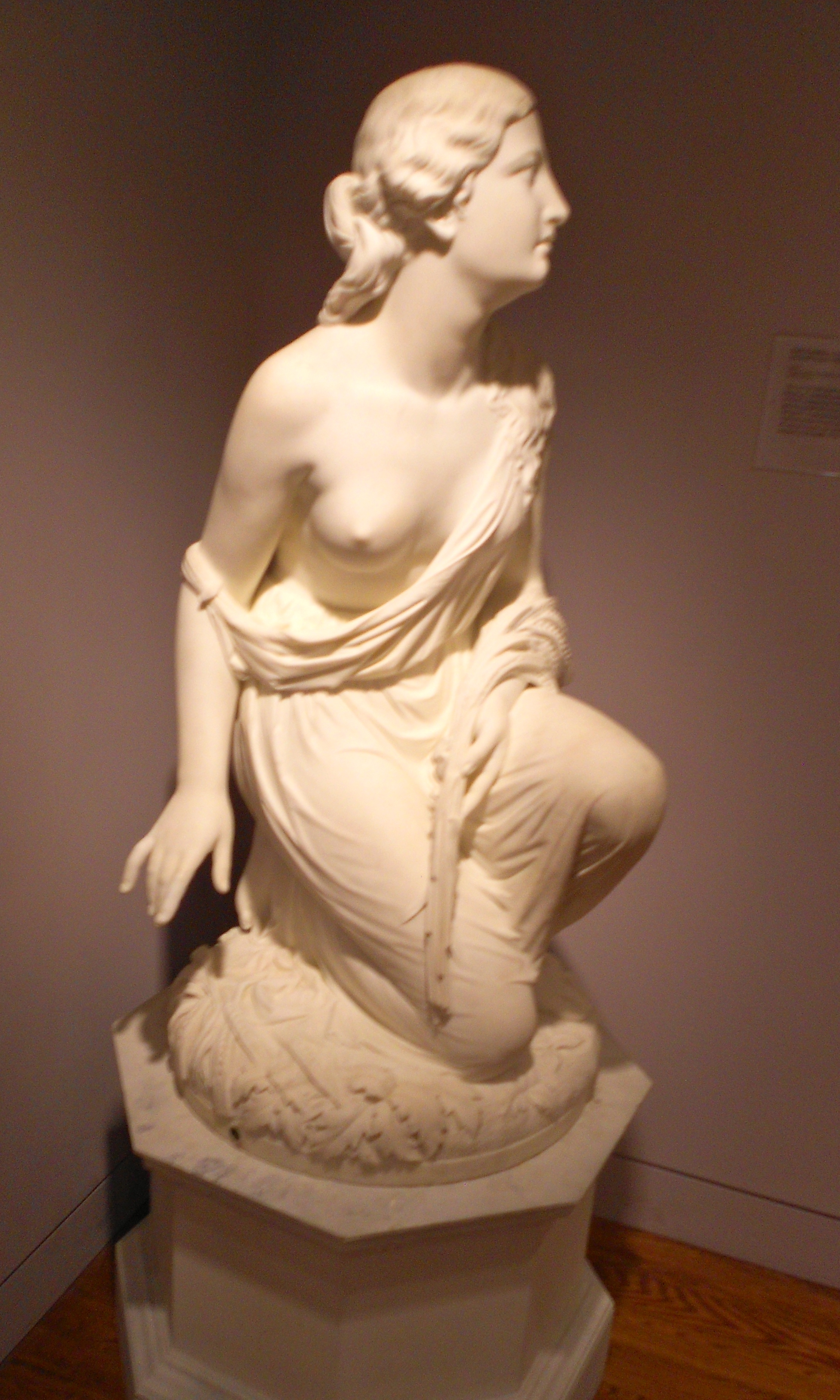 Work in the Delaware Art Museum, Wilmington, Delaware. "Ruth Gleaning" by Randolph Rogers c. 1850. there are many other versions of this with later dates